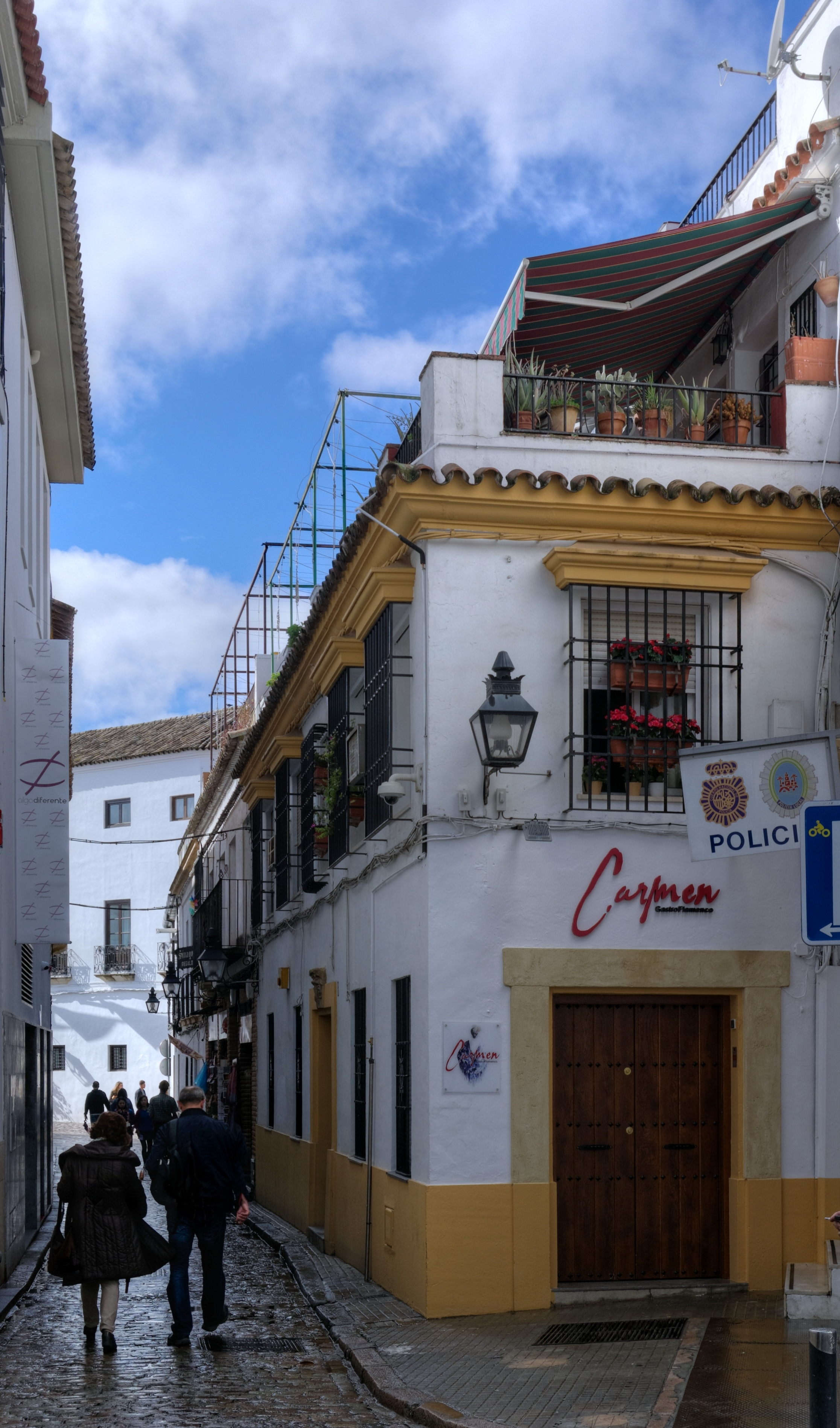 Spain, Cordoba, Calle Albucasis